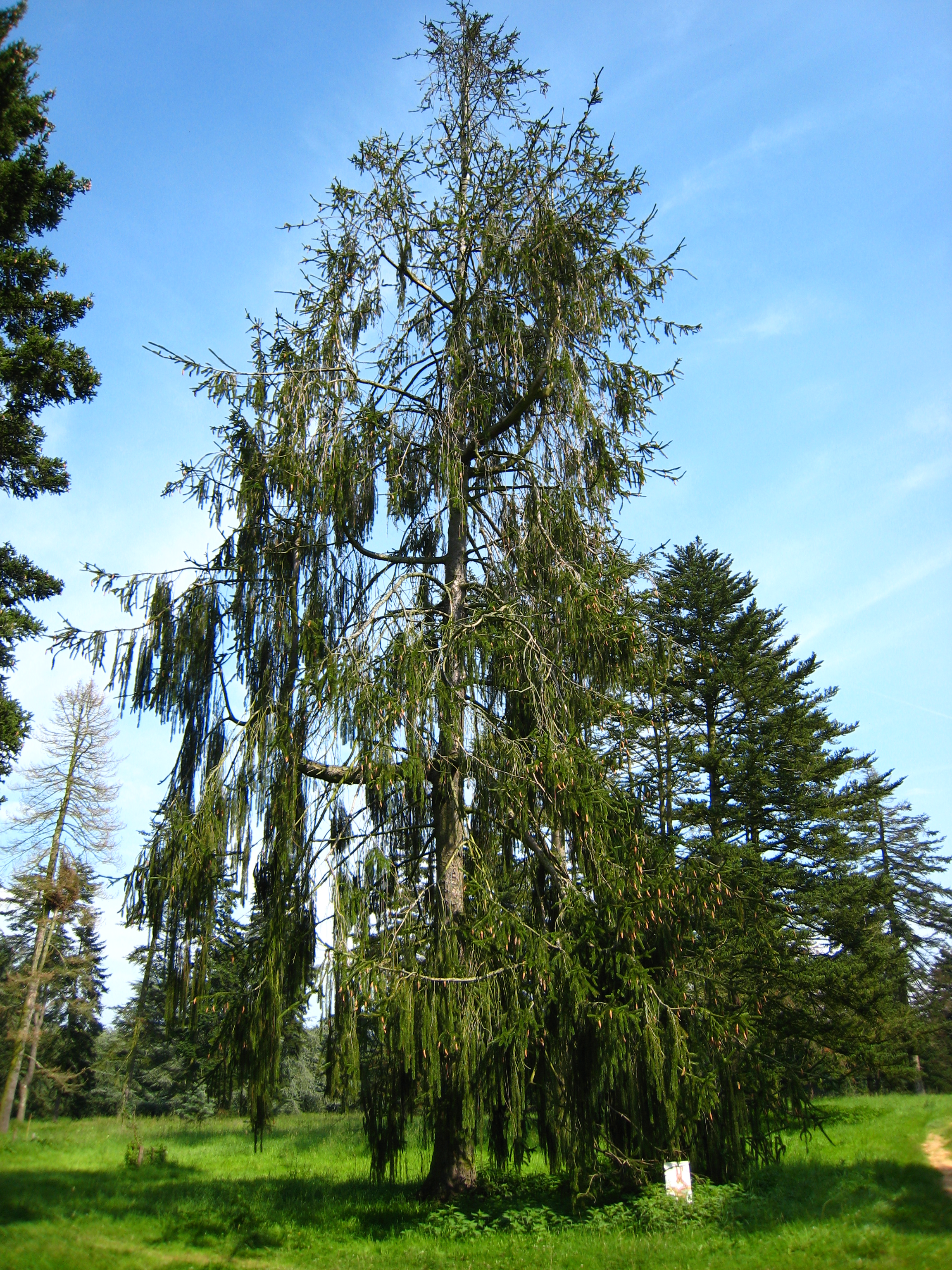 Picea abies 'cranstonii' in the Arboretum de Chèvreloup in Rocquencourt.